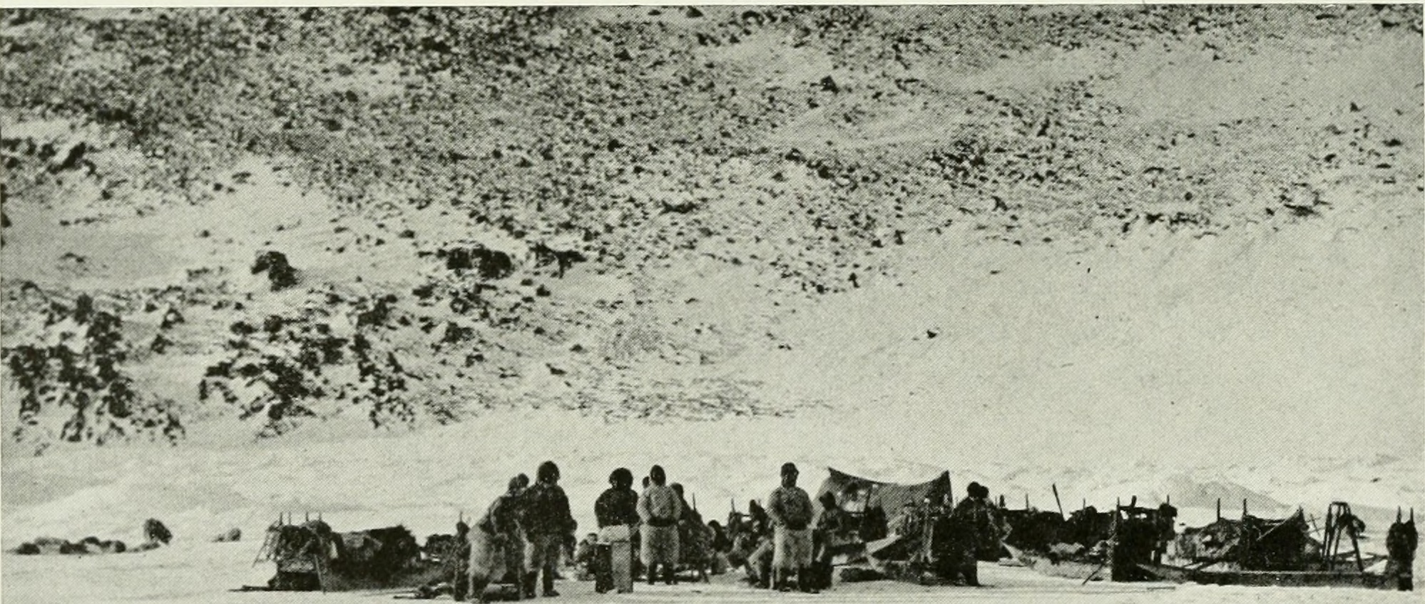 Title: The American Museum journal Year: c1900-(1918) (c190s) Authors: American Museum of Natural History Subjects: Natural history Publisher: New York : American Museum of Natural History Text Appearing Before Image: Courtesy of Donald B. MacMillan. Eskimos and sledges of the Second Thule Expedition in front of Crocker Land Expedition headquarters, just before starting northwards on the sea ice. Text Appearing After Image: '